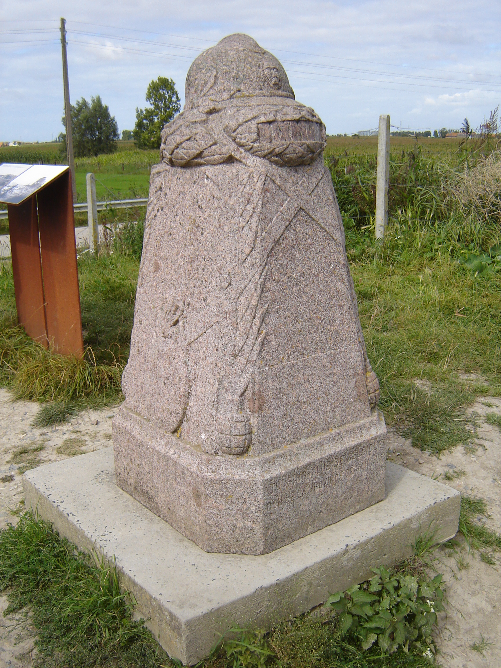 "Demarcatiepaal nr. 12" (demarcation post nr 12) in at the Dodengang in Kaaskerke. Kaaskerke, Diksmuide, West Flanders, Belgium